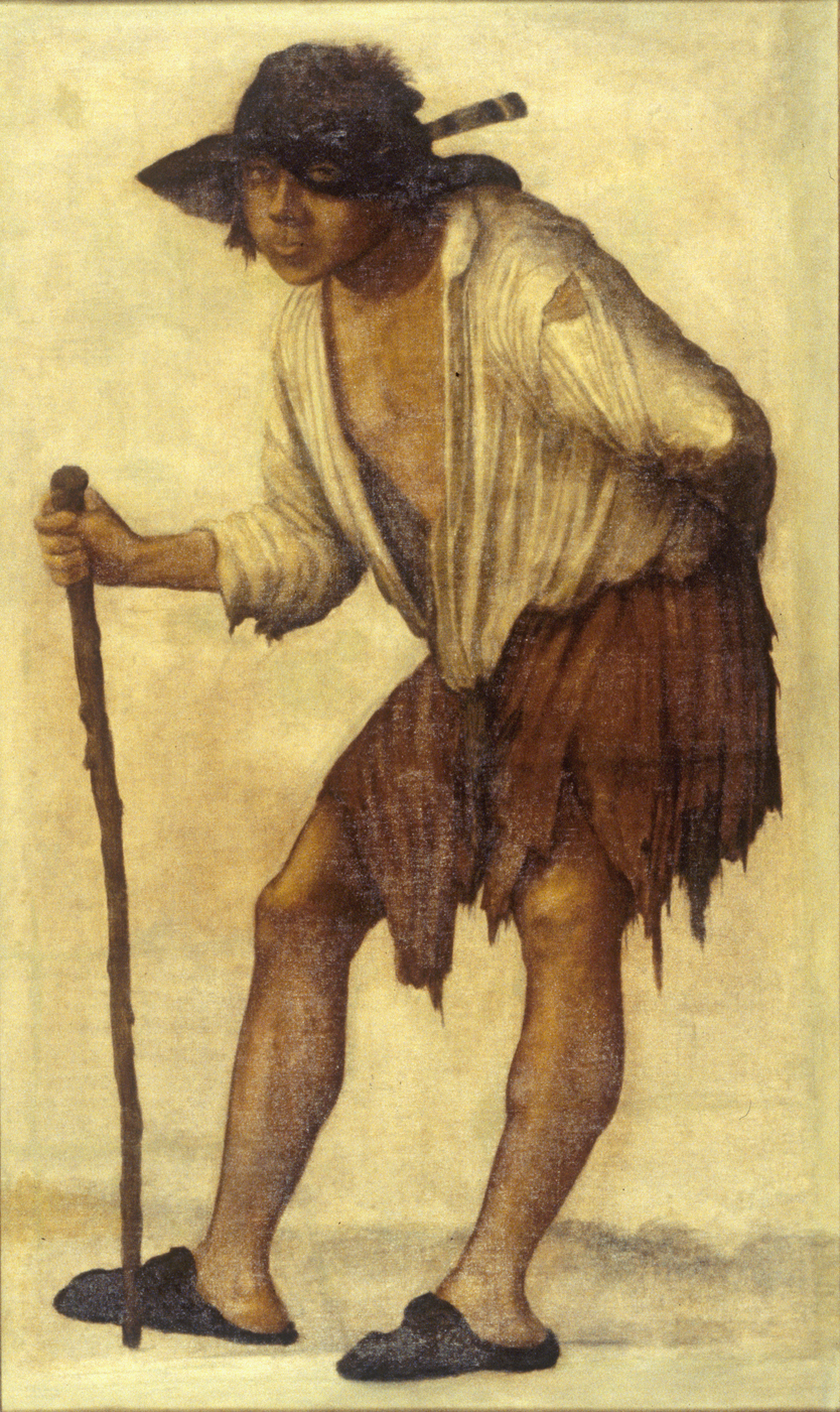 Full-length depictions of beggars and peasants were distinctive subjects for artists of Lorraine (centered in the city of Nancy). The canvas used for this painting was not carefully prepared, and it may have been only intended for a temporary use, such as for a theatrical production. Given the secretive character of the man depicted, peering at us through a hole in his hat, the painting may have had a particular appeal for its previous owner, the American publisher, diplomat, and arts administrator Michael Straight (1931-2004), who was a spy for some years in the employ of the former Soviet Union before renouncing his past.